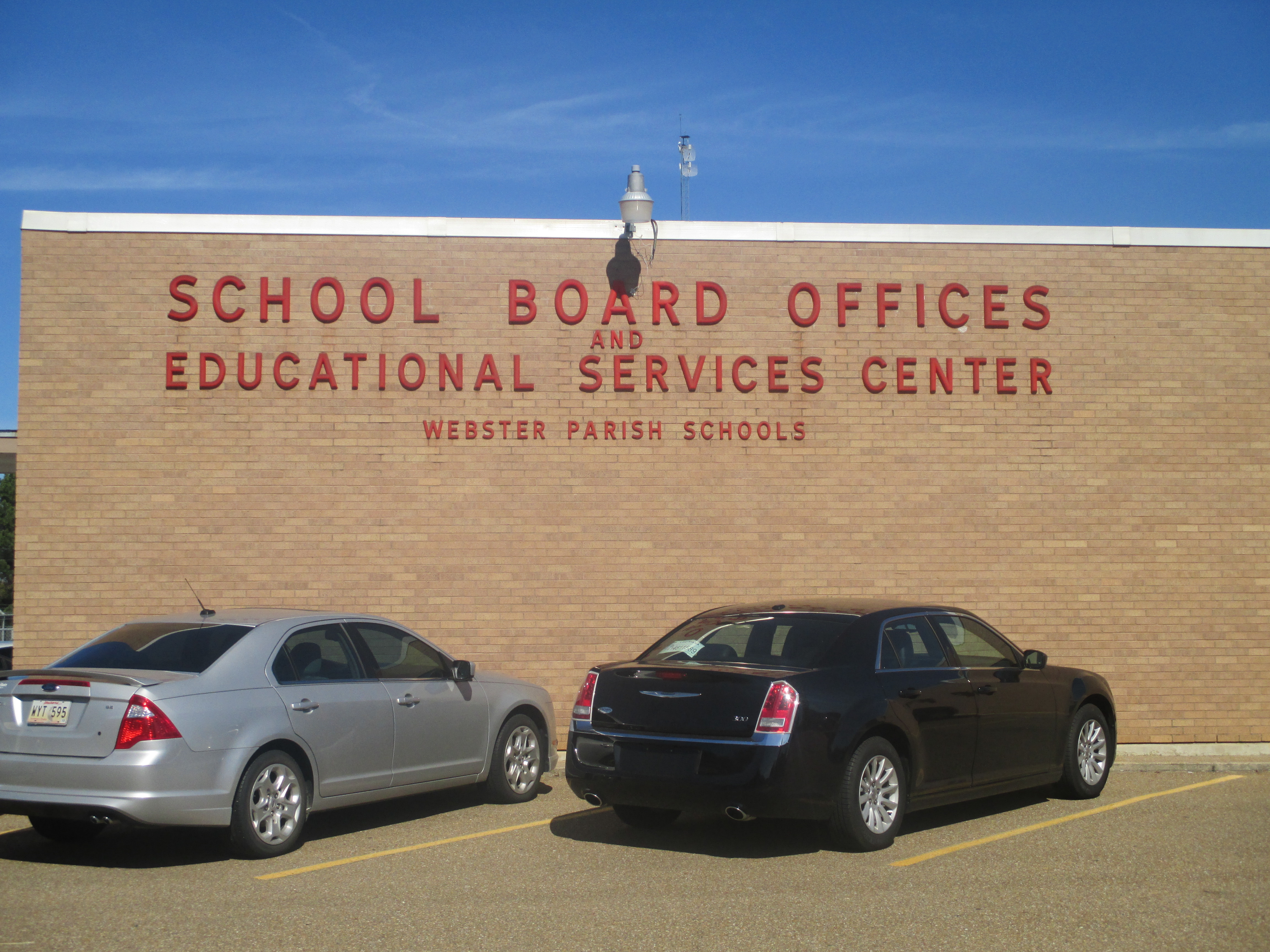 I took photo of Webster Parish School Board offices in Minden, LA, with Canon camera.